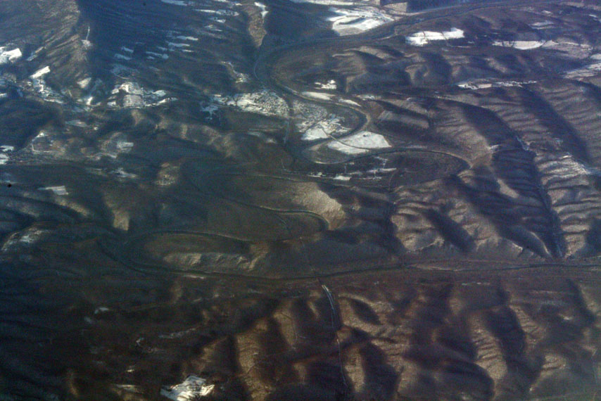 Air photo of meanders in the Potomac River with Paw Paw, West Virginia just above center. Facing south, Jan. 17, 2009. Color enhanced in Photoshop.